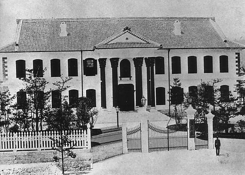 Hiroshima Prefectural Office in the Meiji era